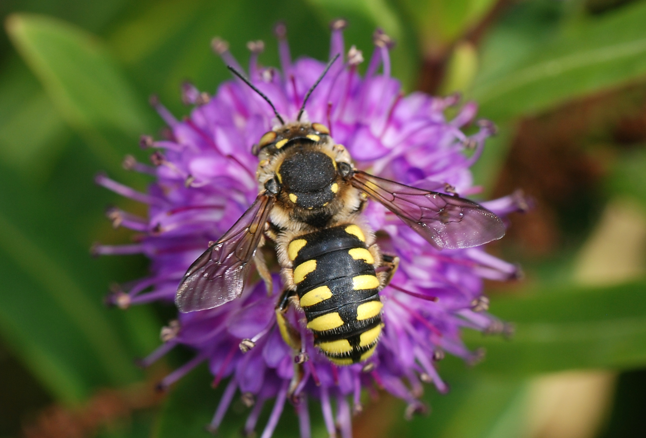 Anthidium florentinum male. Males are noticeably larger than females and have a stouter body.